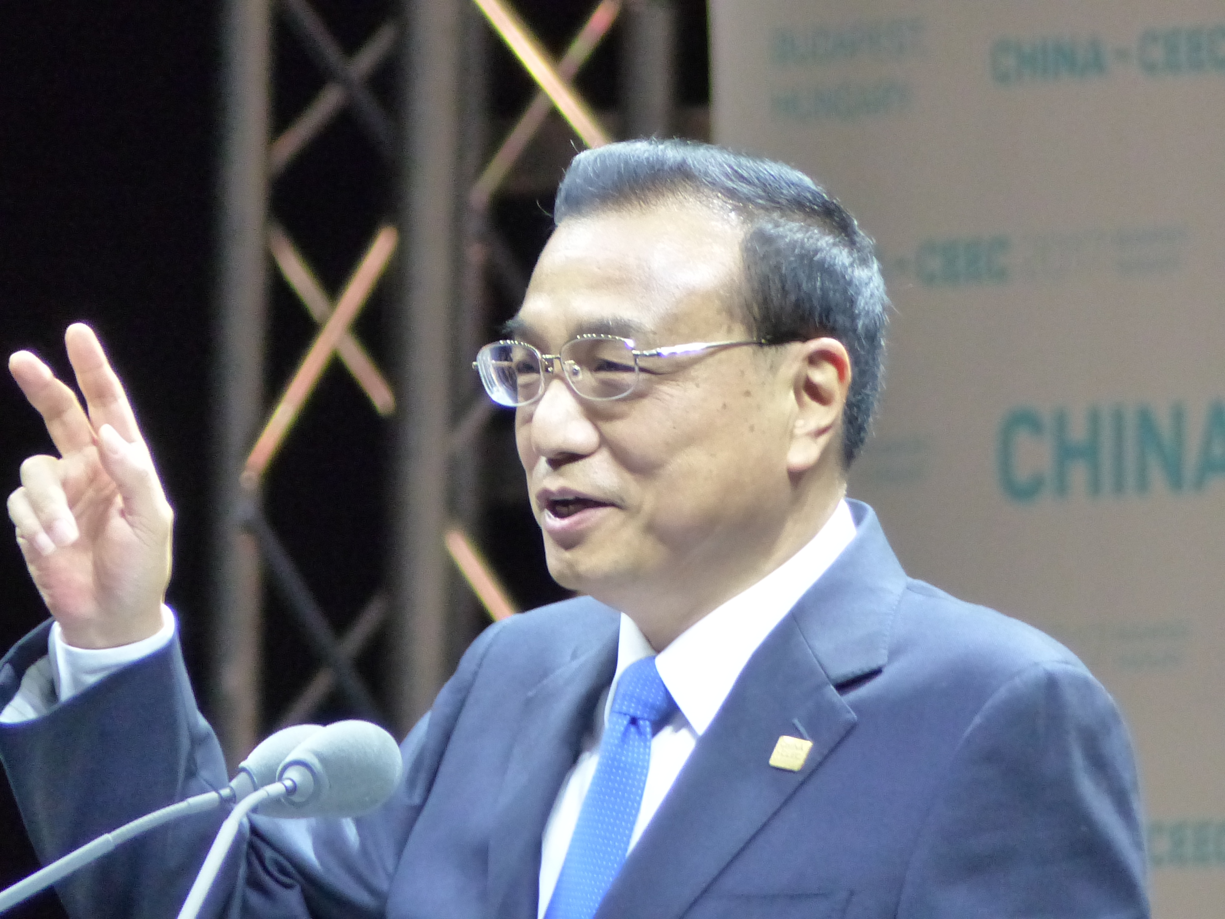 Li Keqiang. Prime minister of PRC. Key Note speech. China-CEEC 2017 Budapest, Hungary. Central Europe.